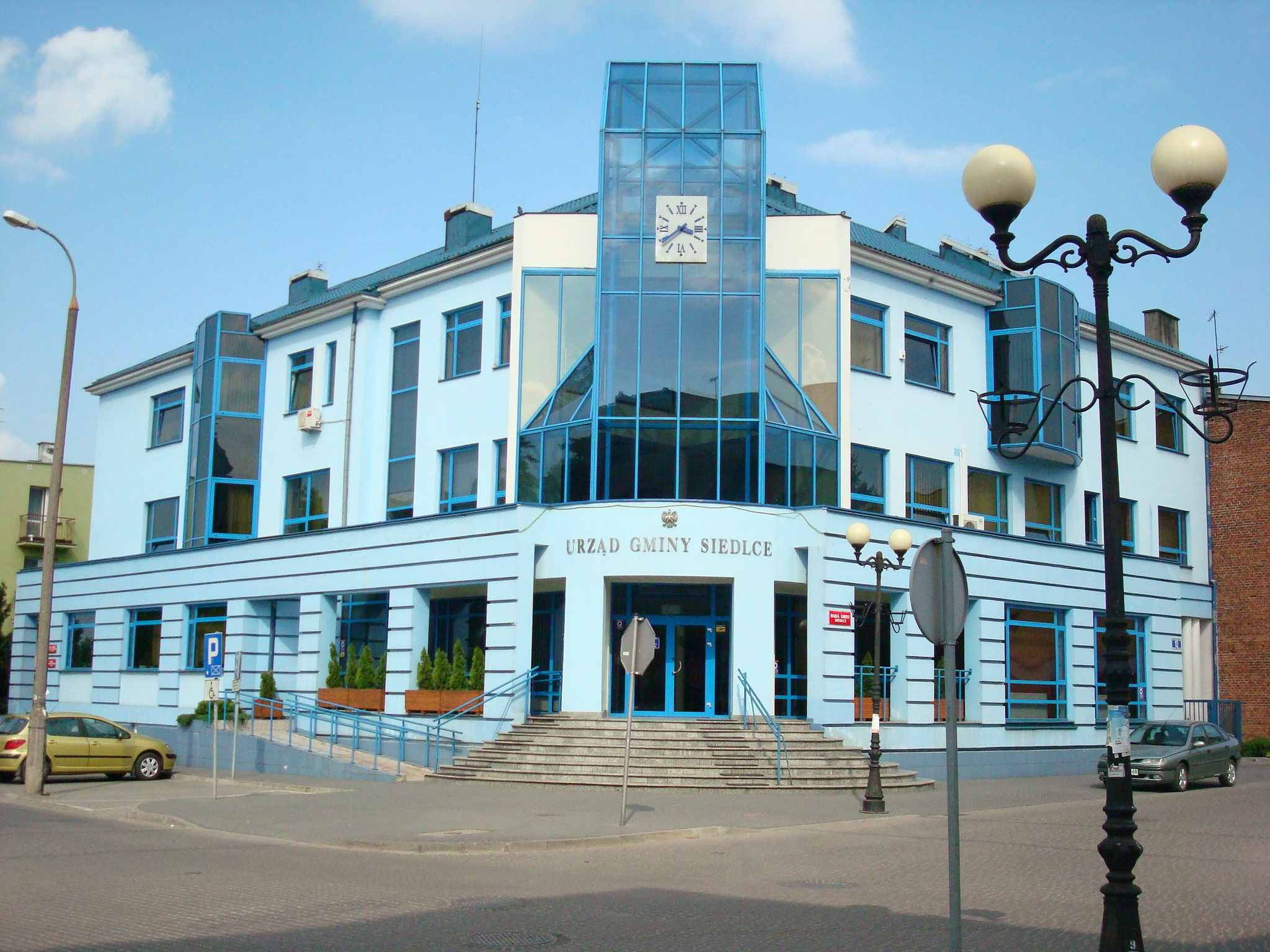 Office of gmina Siedlce